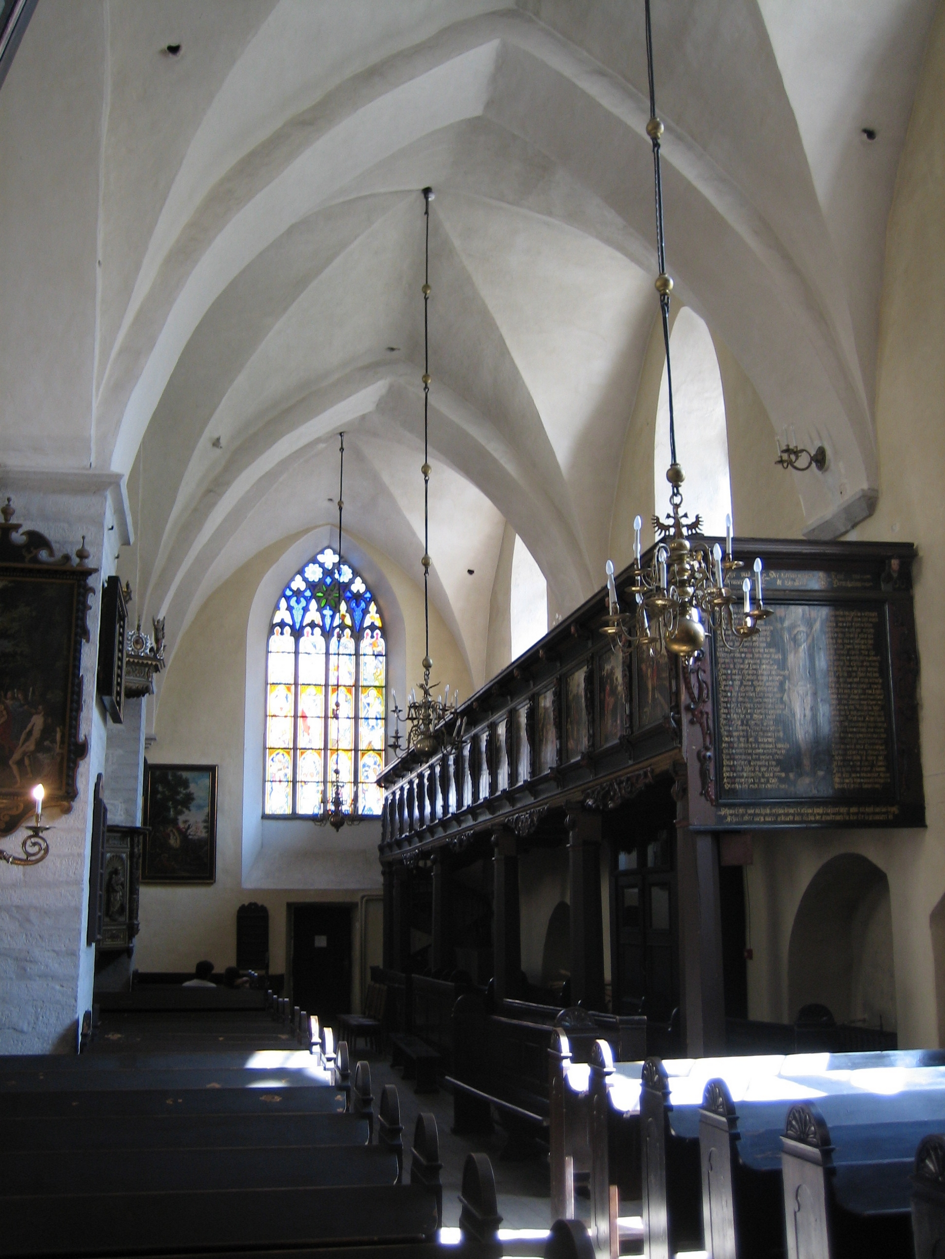 Vaults in the medieval Church of Holy Spirit in Tallinn